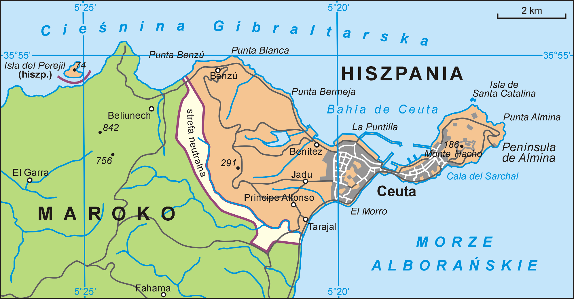 Map of Ceuta and Perejil